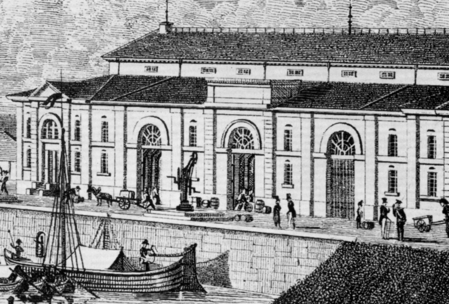 Royal customs office at the Wilhelm canal in Heilbronn. Lithography, ca. 1830